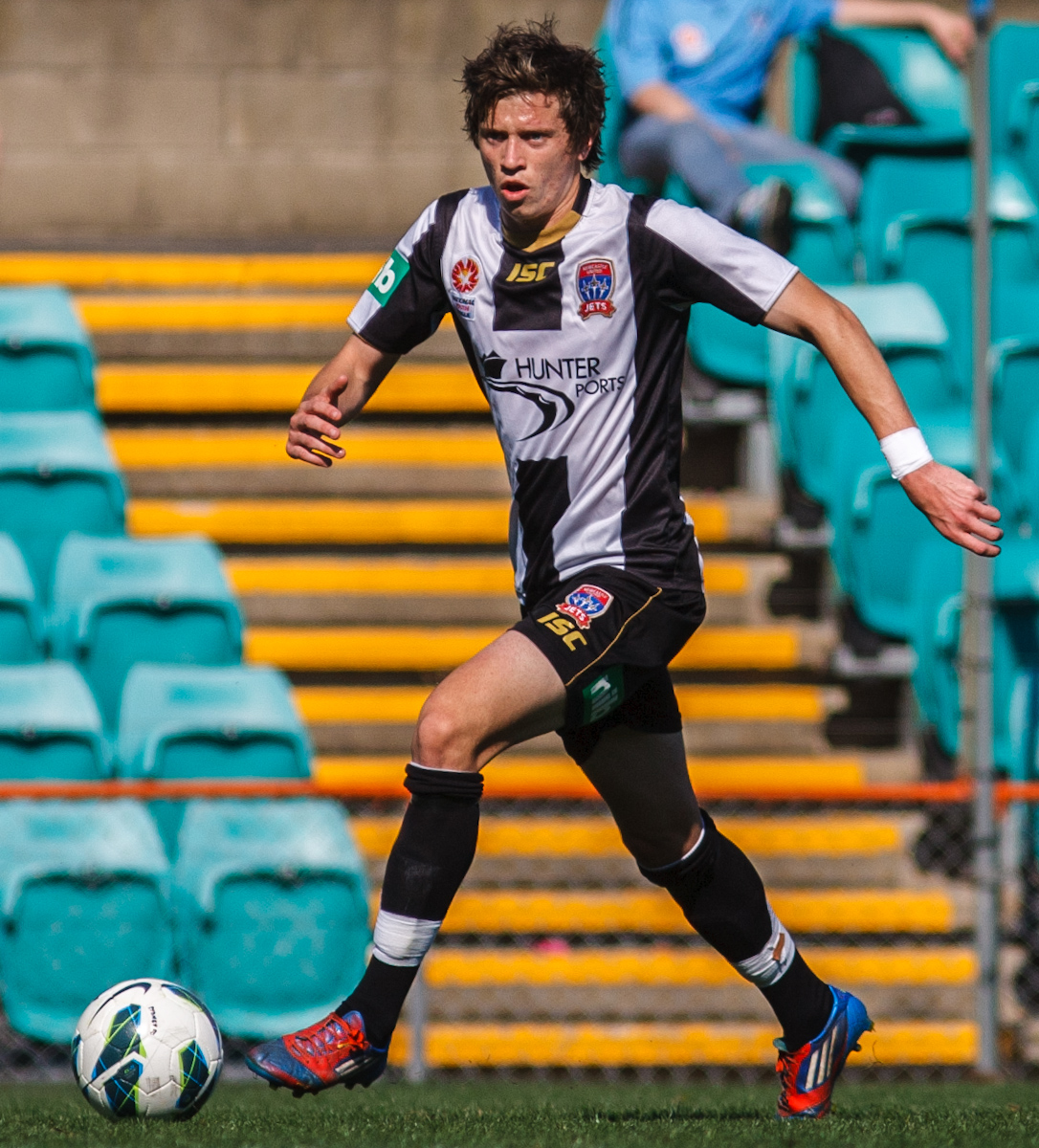 Craig Goodwin playing in a pre-season match between Sydney FC and Newcastle Jets.